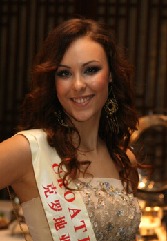 Miss Croacia - Tajana Jeremic - in Miss World 2007, Sanya, China